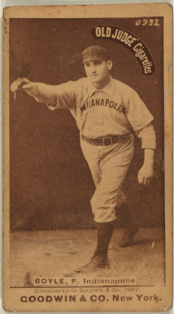 Henry Boyle's baseball card